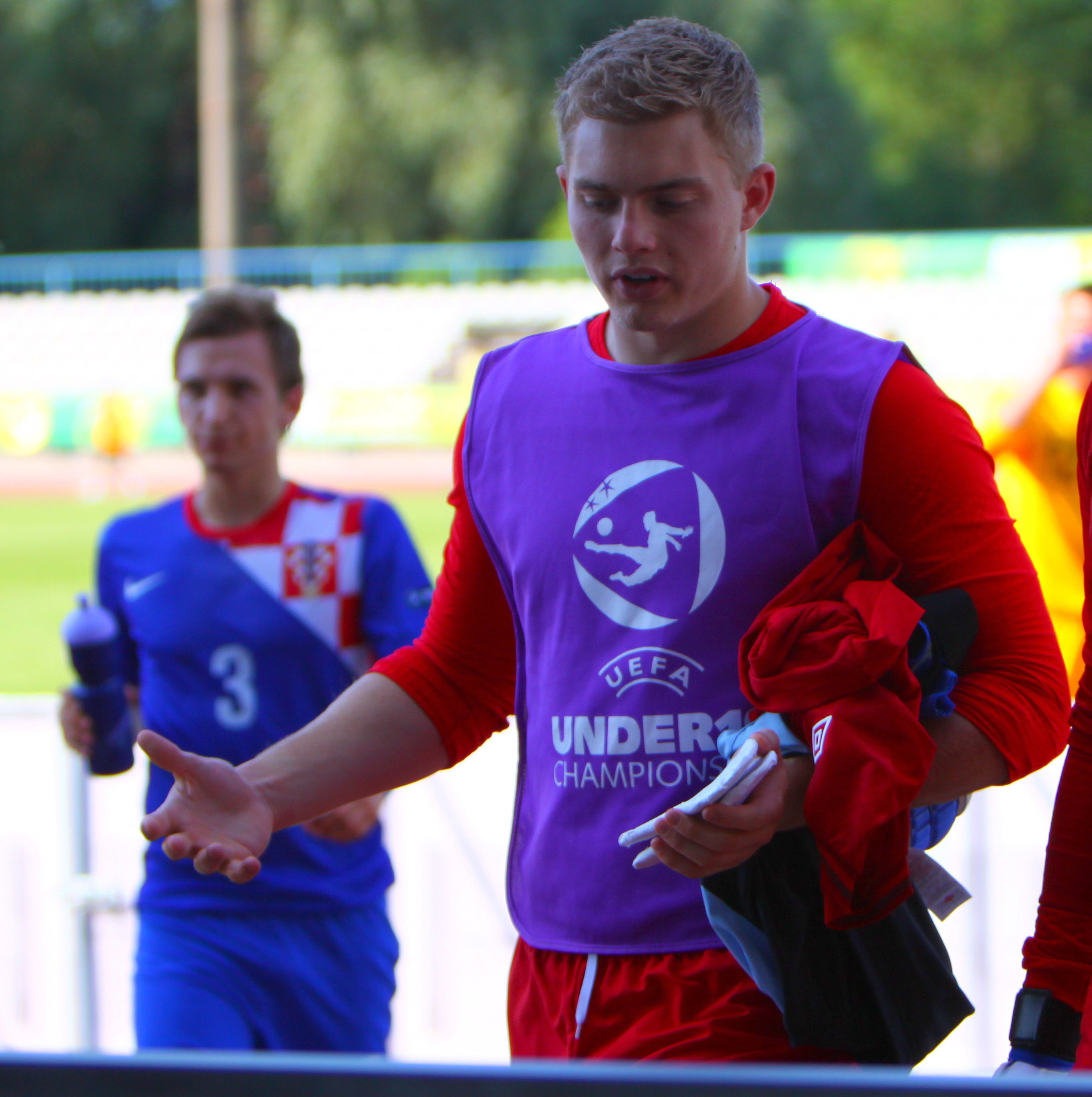 Connor Ripley and Sam Johnstone